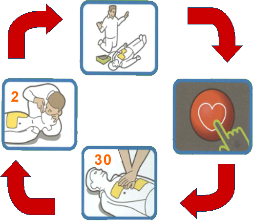 sequence of life-support with defibrillator